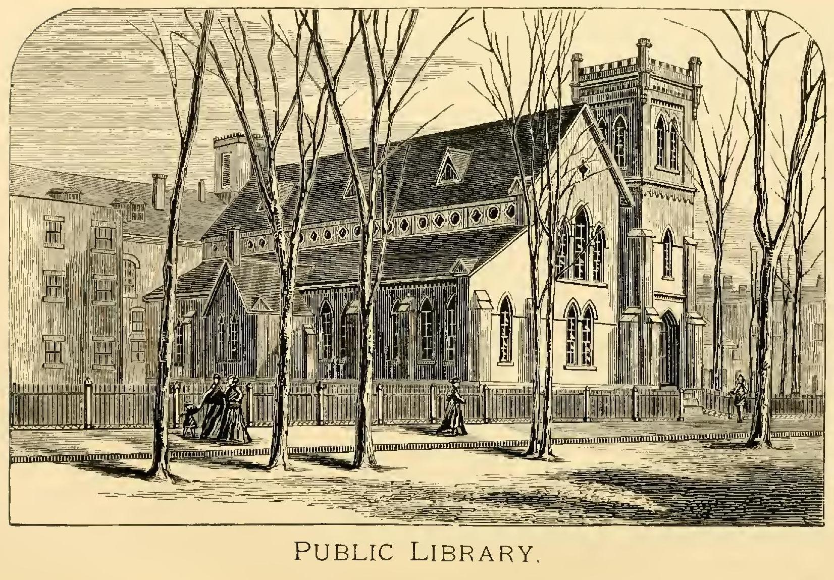 Manchester Public Library c.1875